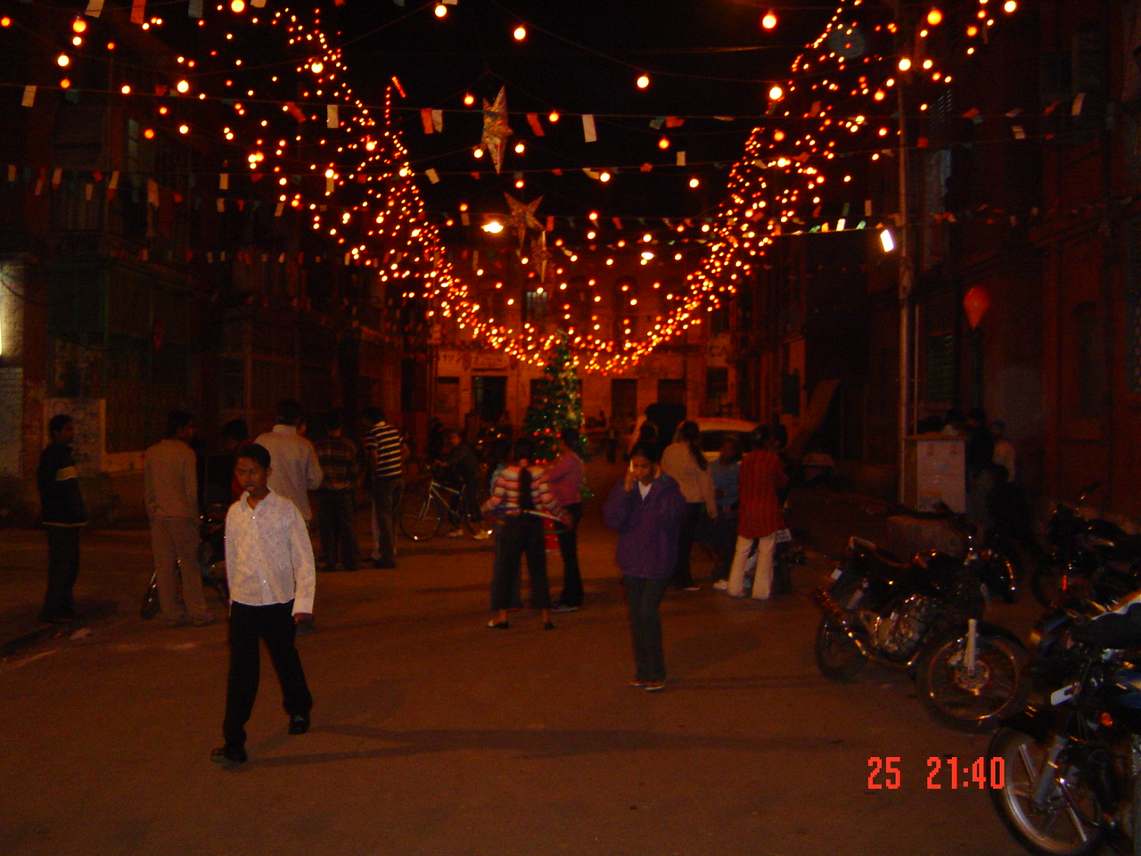 Bow Barracks (Central Calcutta) on the eve of Christmas,2005.